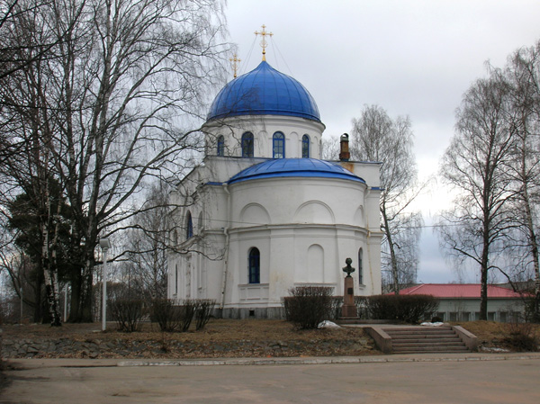 Priozersk. Orthodox church with a statue of Peter I.